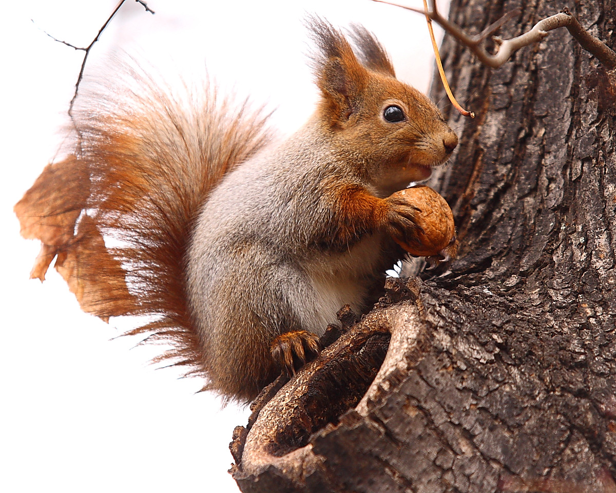 squirrel "red squirrel" "Eurasian red squirrel" "Sciurus vulgaris"